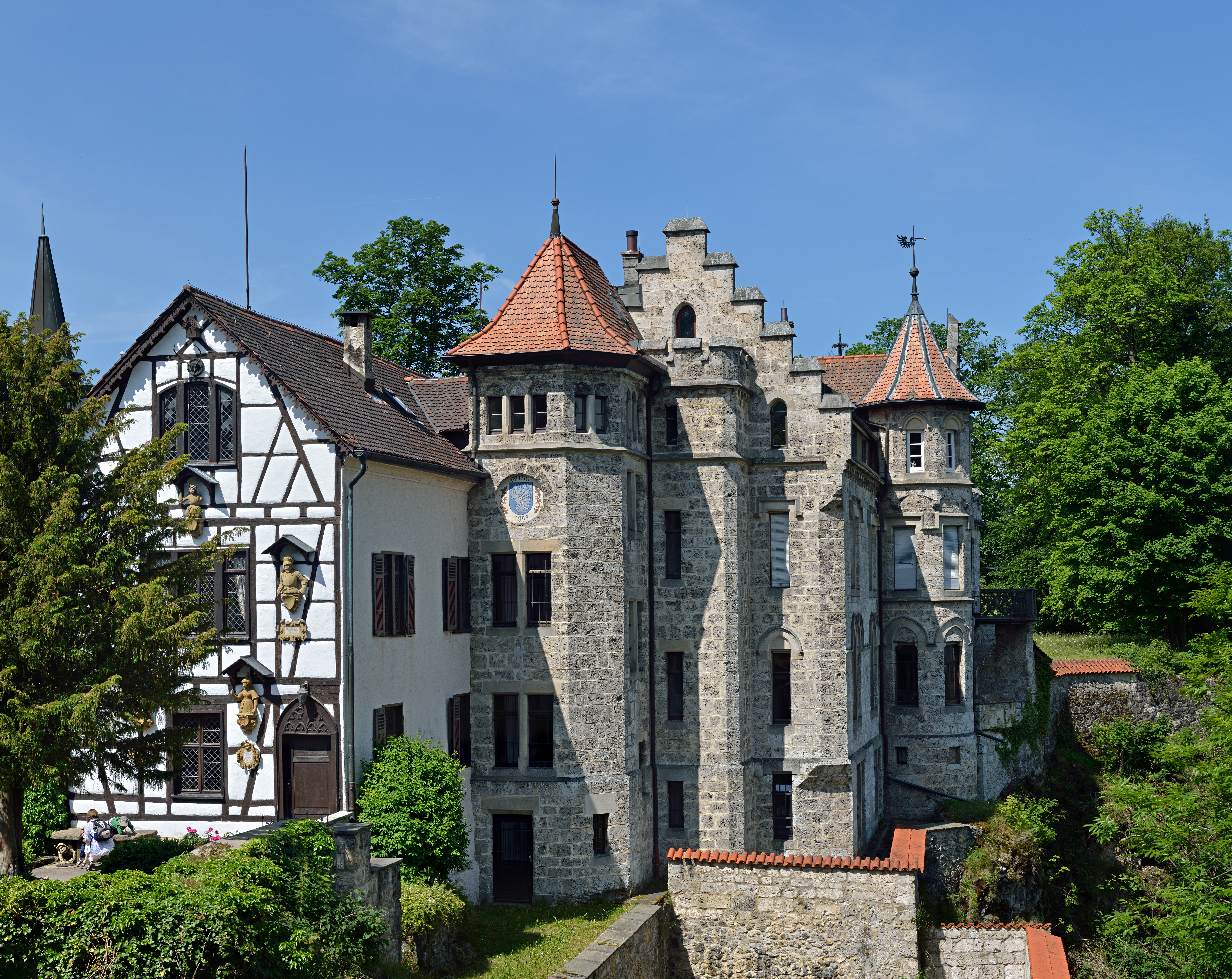 The Lichtenstein Castle. It is a eleven segment panoramic image.